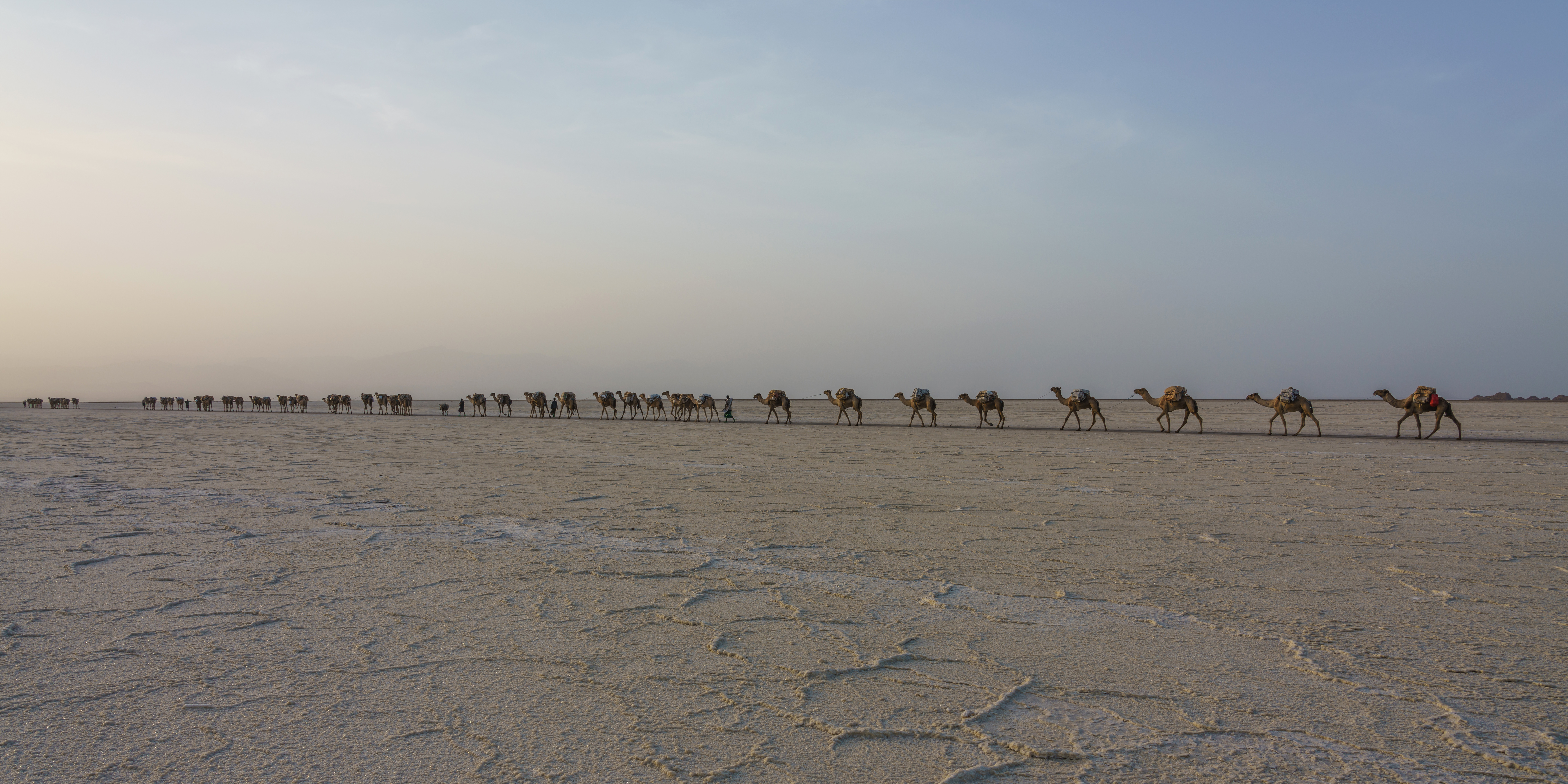 Camel caravan from the salt works – salt desert at Lake Karum, Afar Region, Ethiopia